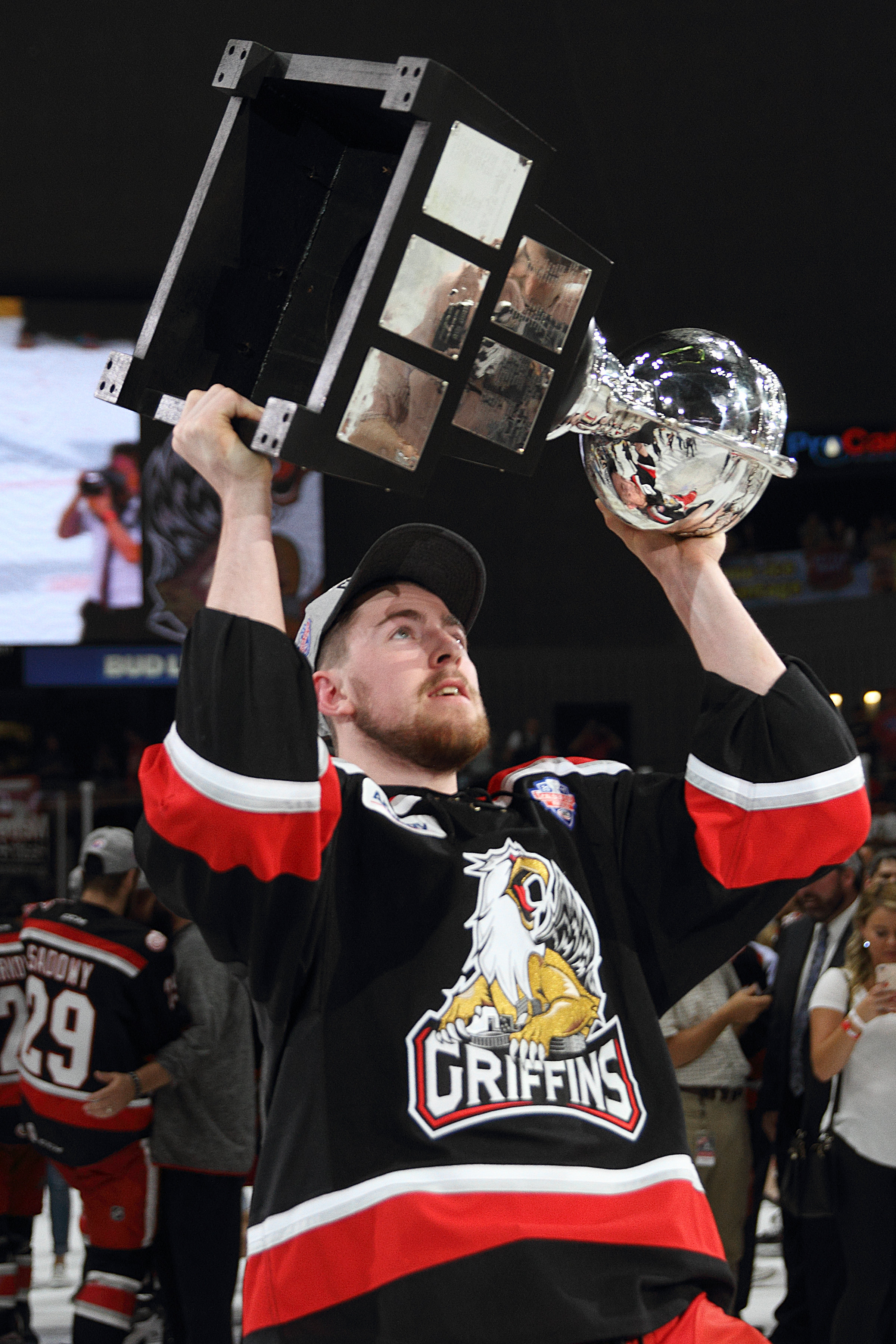 Photo: Mark Newman